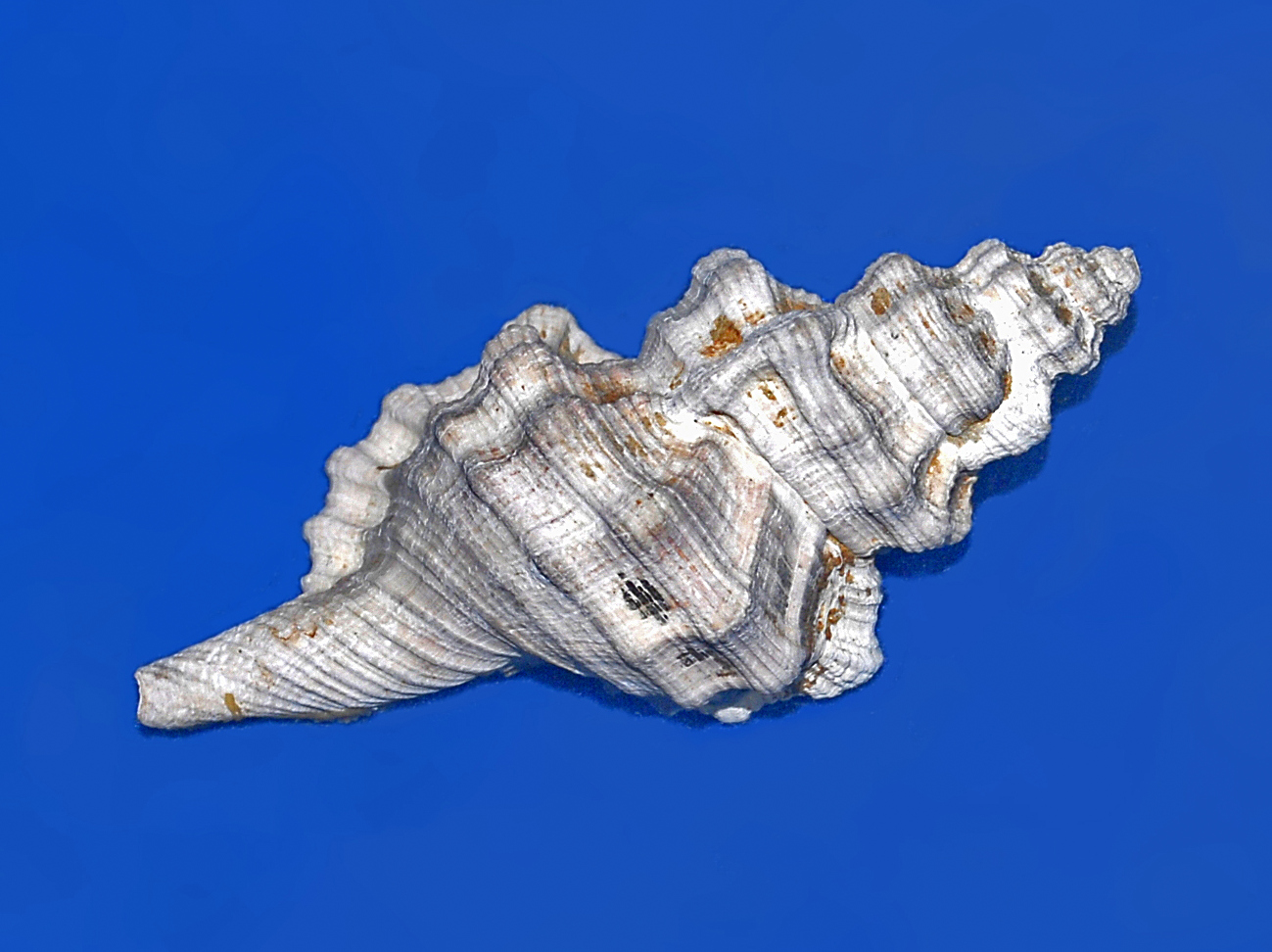 Fossil shell of Cymatium lotorium from Pliocene of Italy, on display at the Museo Paleontologico, Asti